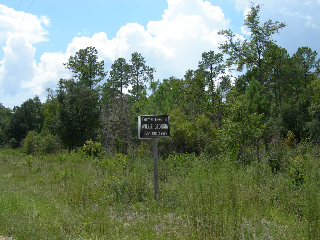 WIllie, Georgia Sign mentioning that it was a former town that had it's last census in 1940 with 192 people.